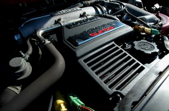 Toyota 7M turbo engine, mounted